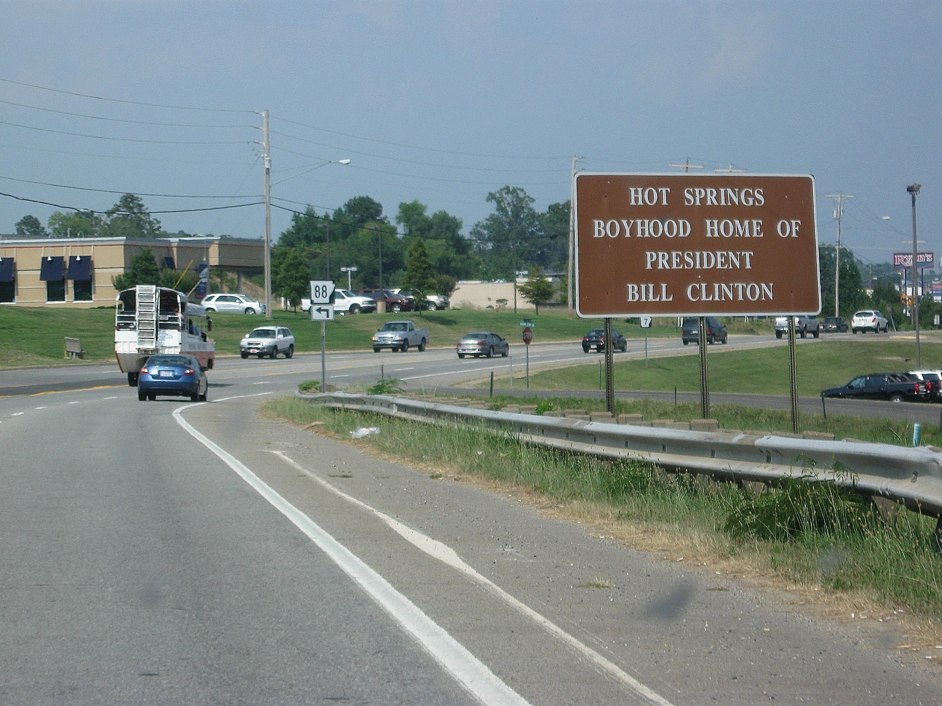 AR 7 near its southern intersection with AR 88 in Hot Springs, Arkansas, used to illustrate AR 88. (correction by: --RBBrittain (talk) 02:01, 9 July 2011 (UTC) )